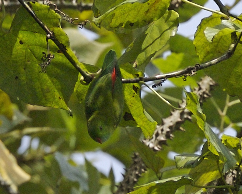 Vernal Hanging Parrot (Loriculus vernalis) in Thattekad, Kerala, India on 8 October 2007.